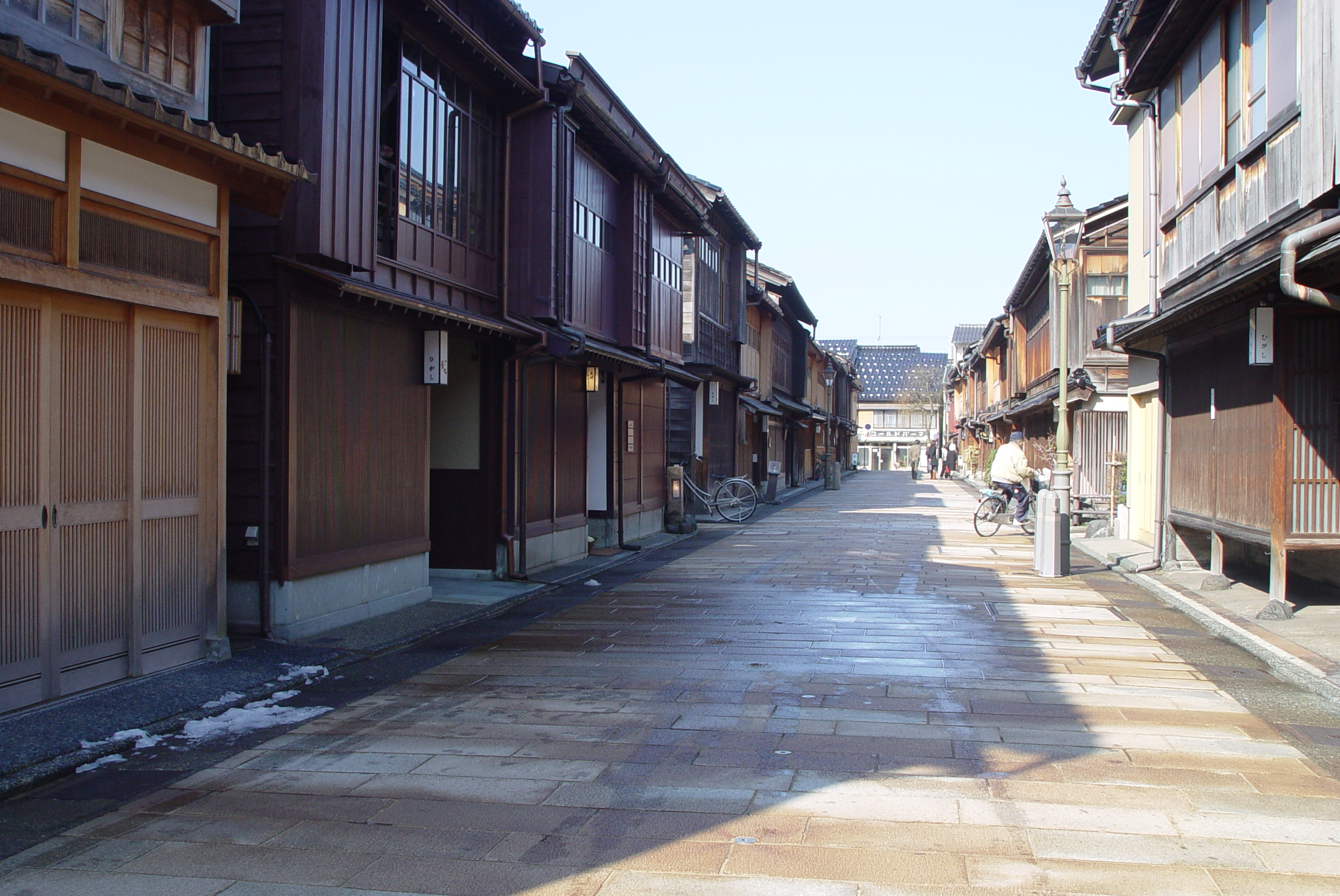 Japan. Ishikawa-ken, Kanazawa-shi. Higashiyama-machi. A very famous street that remains as a traditional street in the city of Kanazawa. Autor:jovandavid Using a SonyDSC